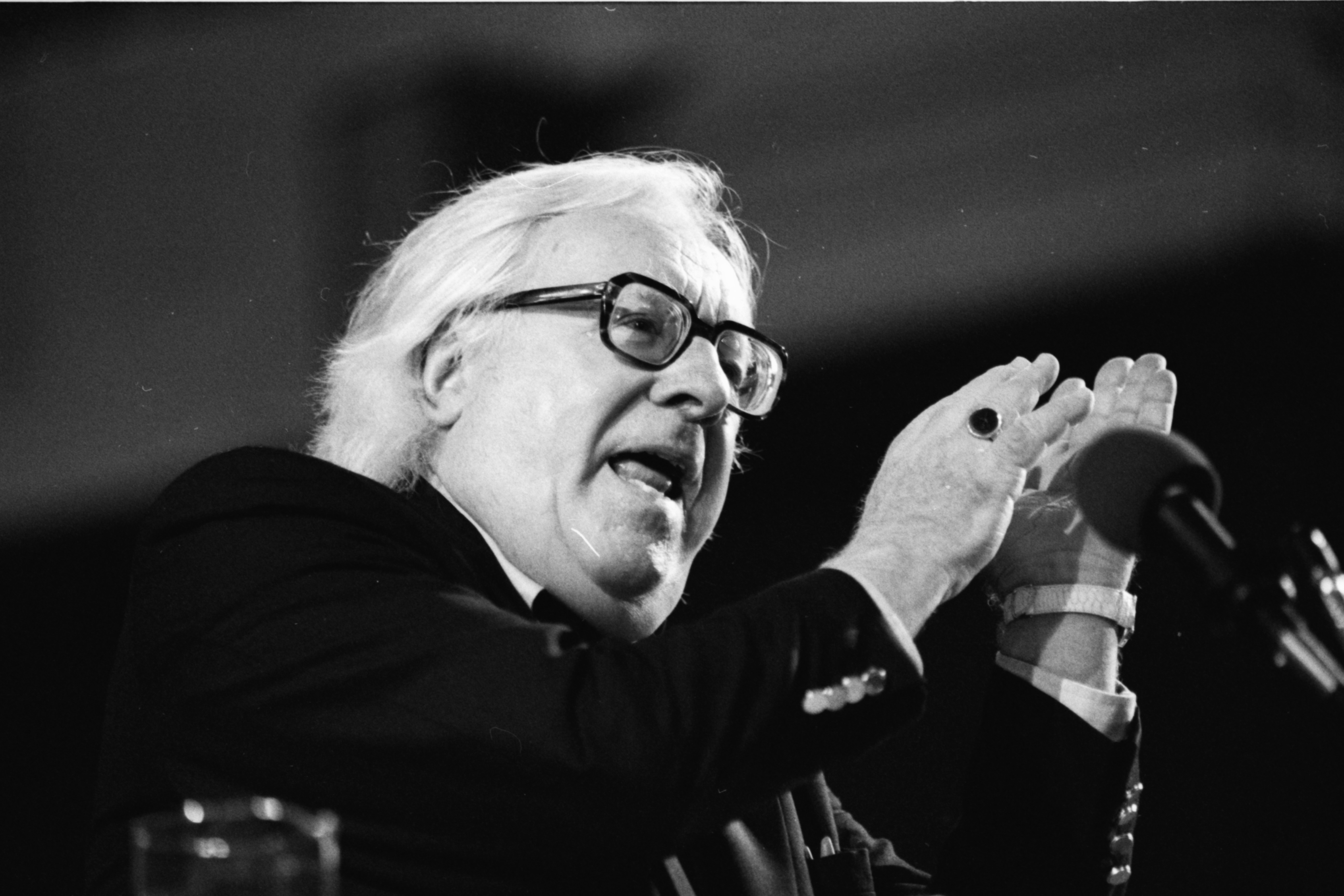 Ray Bradbury, Miami Book Fair International, 1990